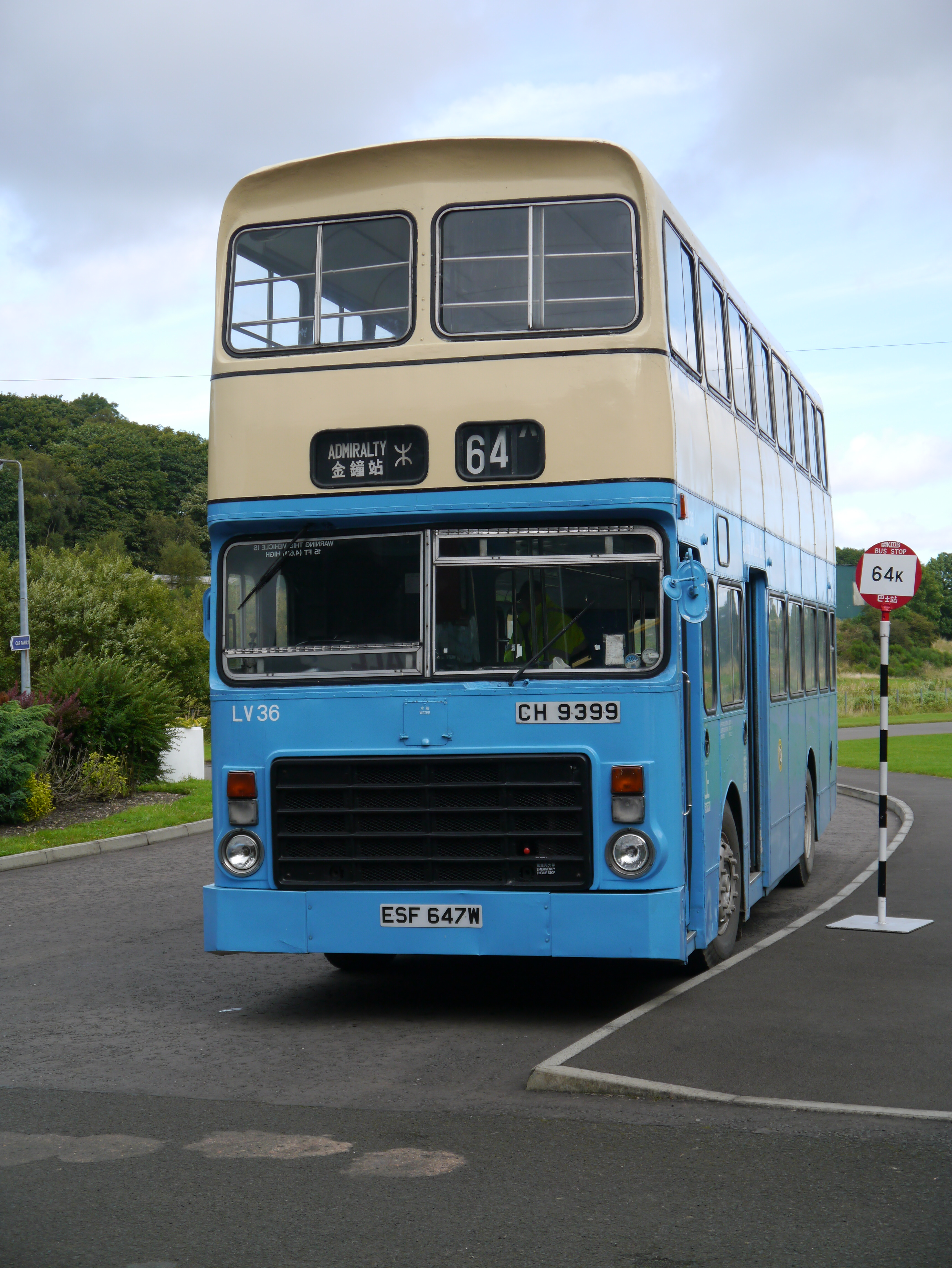 Guy Victory At The Scottish Vintage Bus Museum. One of two buses which ferried visitors to the exhibit sheds on site at Lathalmond. This bus was shipped back from Hong Kong where it was capable of carrying 102 passengers! for... more